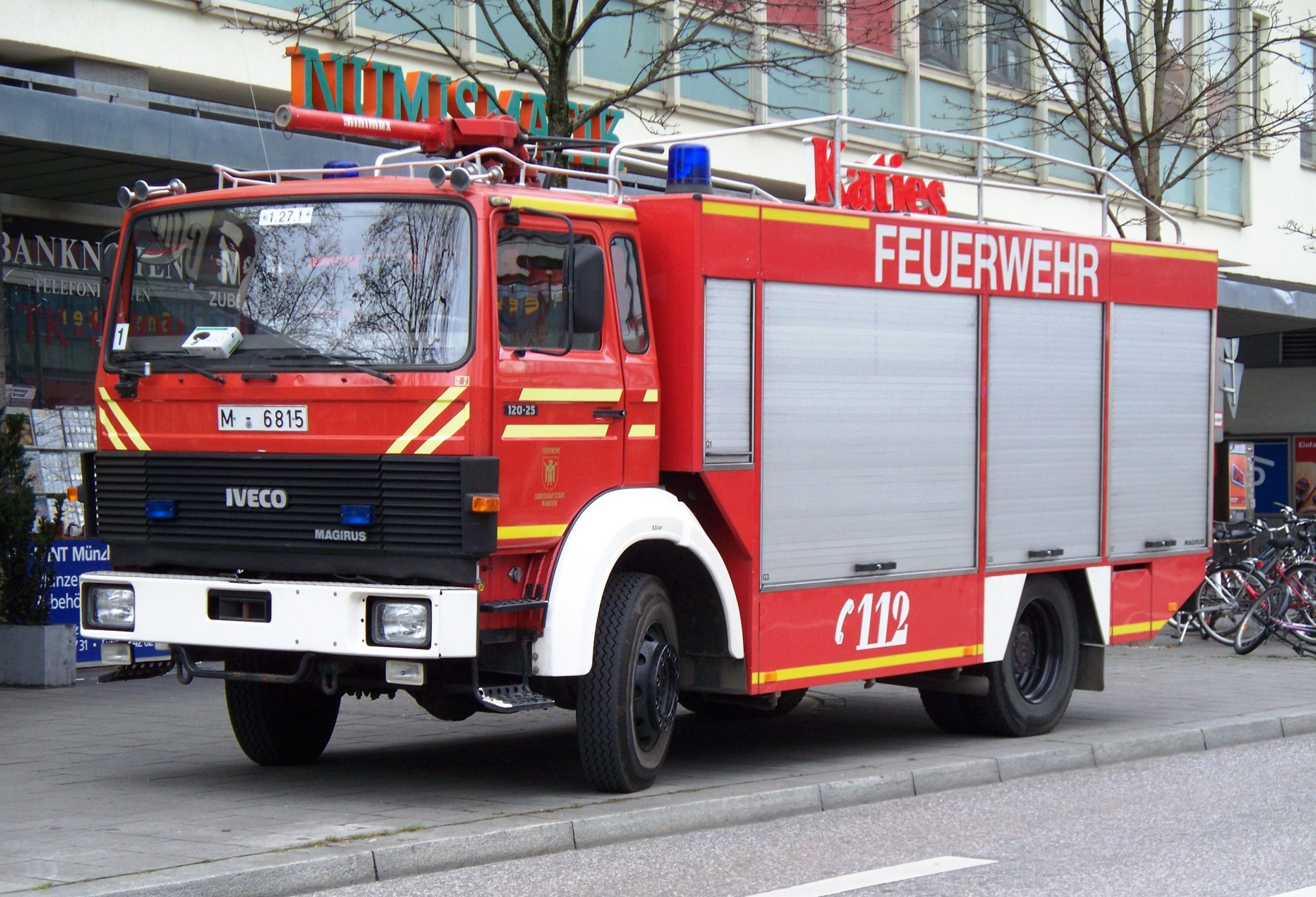 An Iveco-Magirus fire engine in Munich.